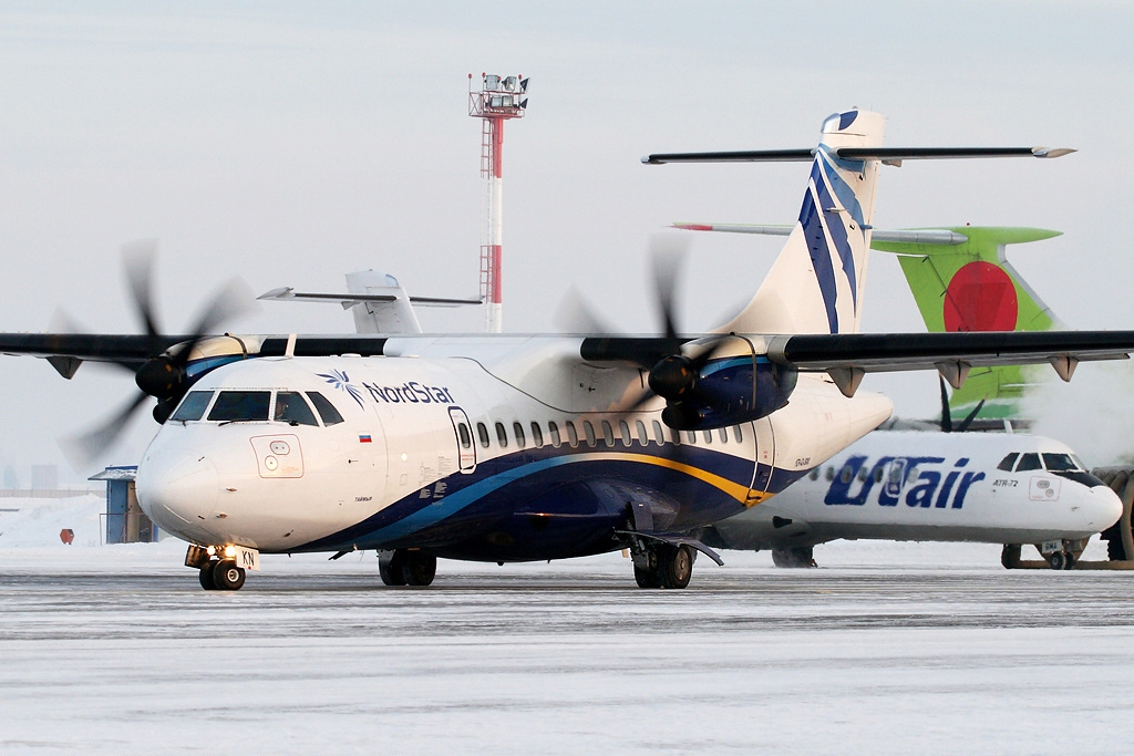 Departure.